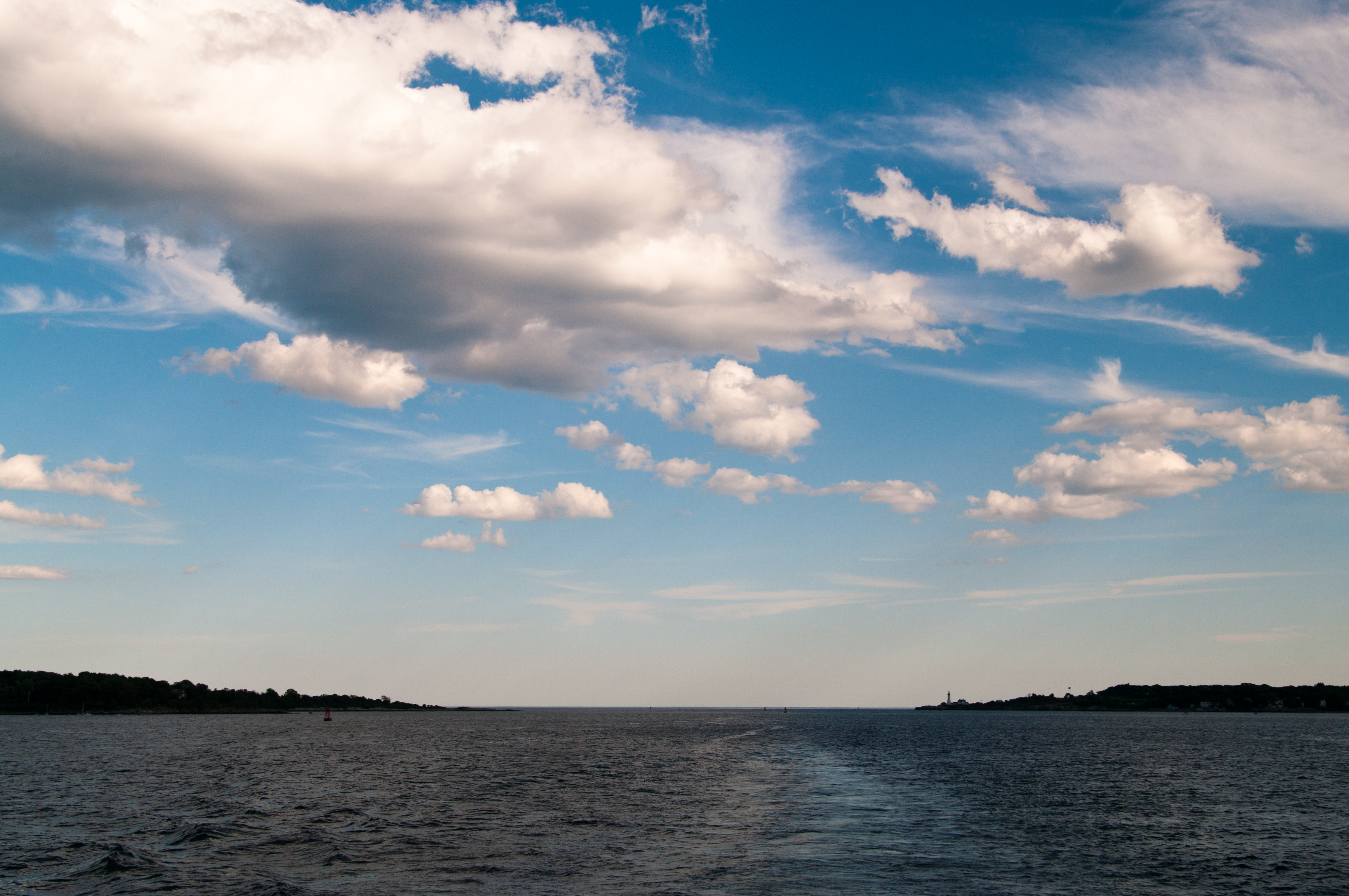 Casco Bay going towards Portland.